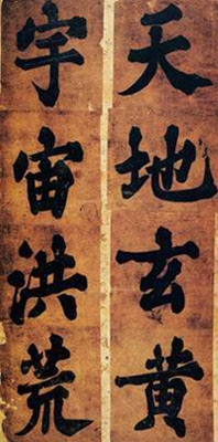 The Korean calligraphy written by Han Ho. The poem passages from Cheonjamun which is a basic book for beginners to learn Chinese characters (hanja) and holds "thousand letters" just like the meaning of the title.